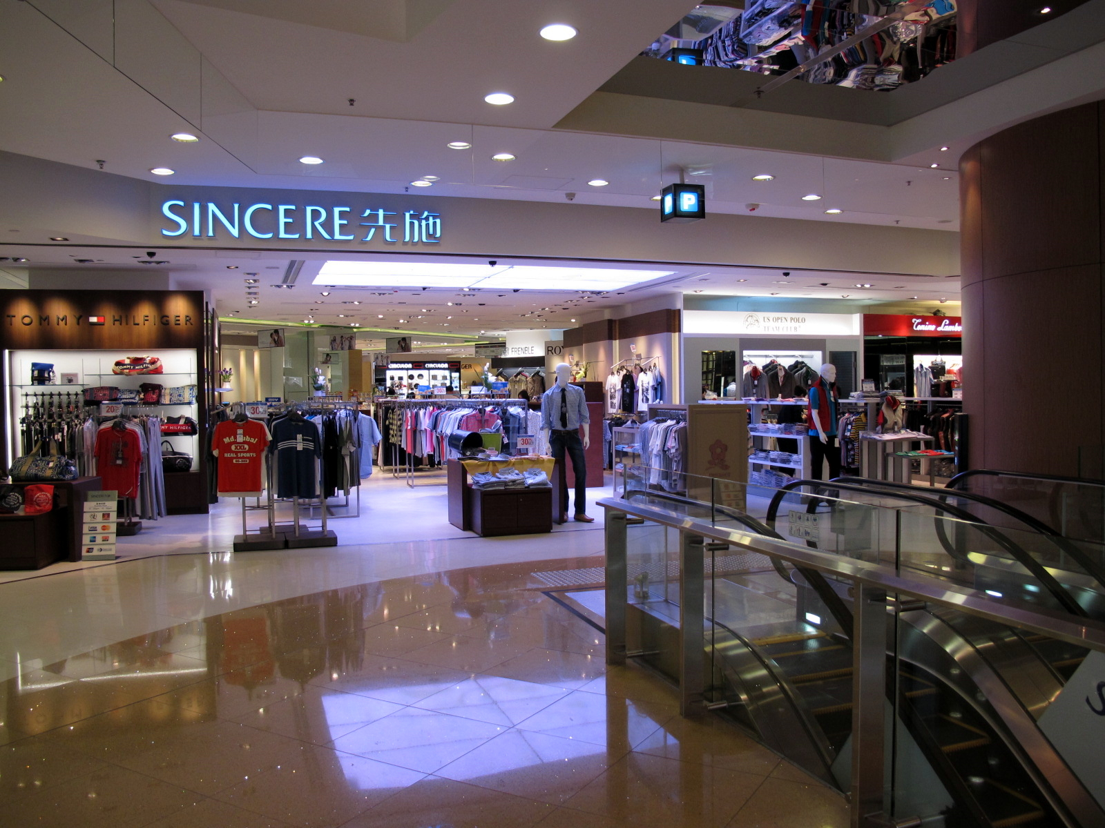 Sincere Citywalk Phase 2 Store